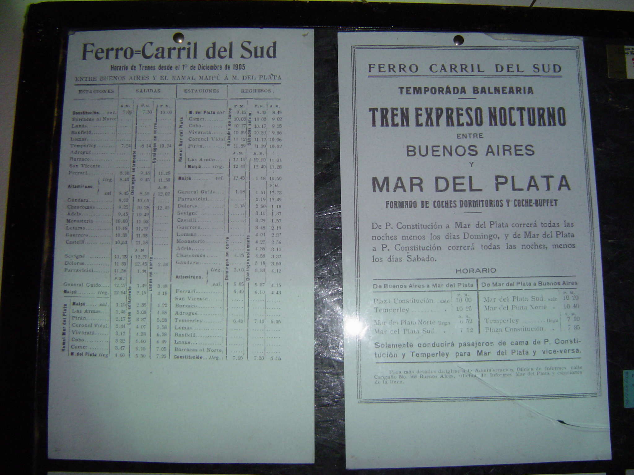 Time schedule of Buenos Aires - Mar del plata service by Ferrocarril del Sud, 1905.